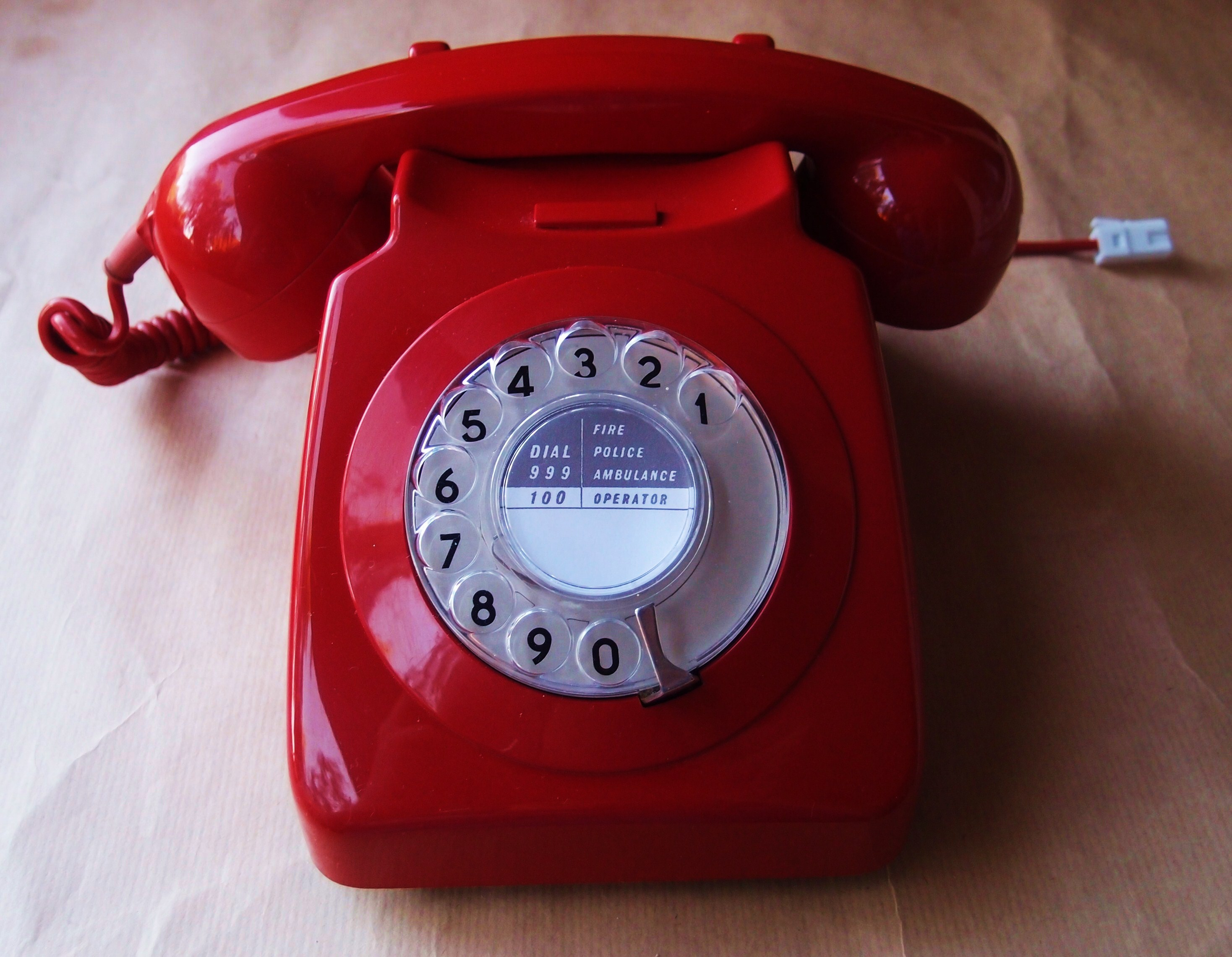 GPO 746 telephone in red